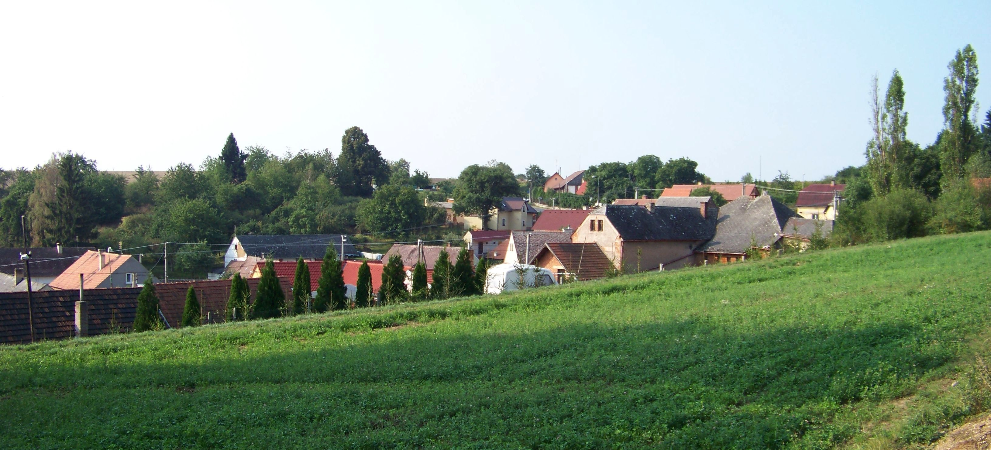 Všesulov, Rakovník District, Central Bohemian Region, the Czech Republic.